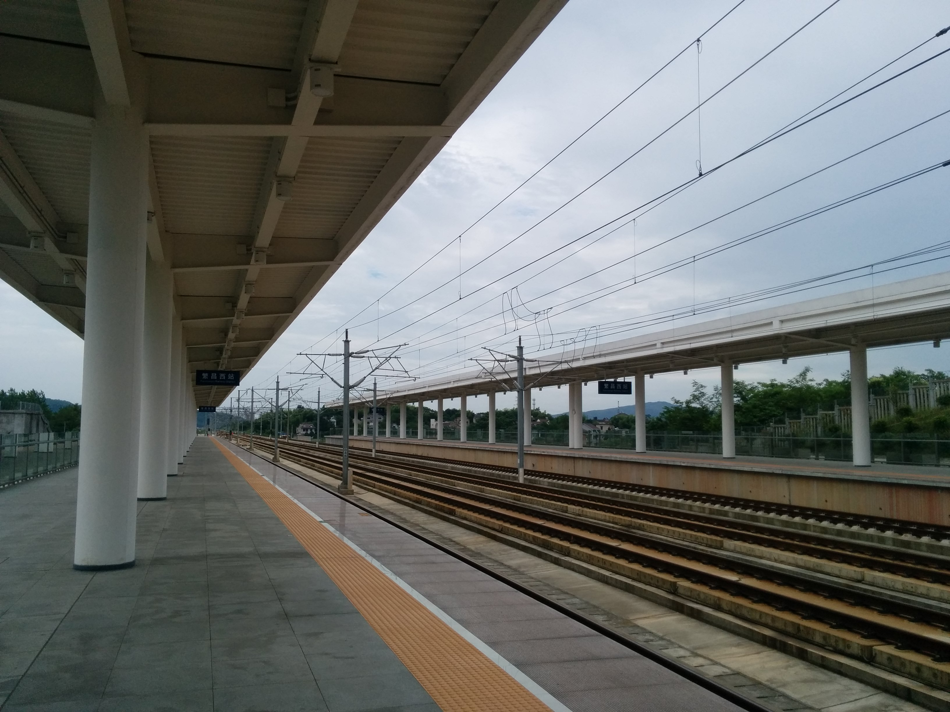 Platform of Fanchangxi